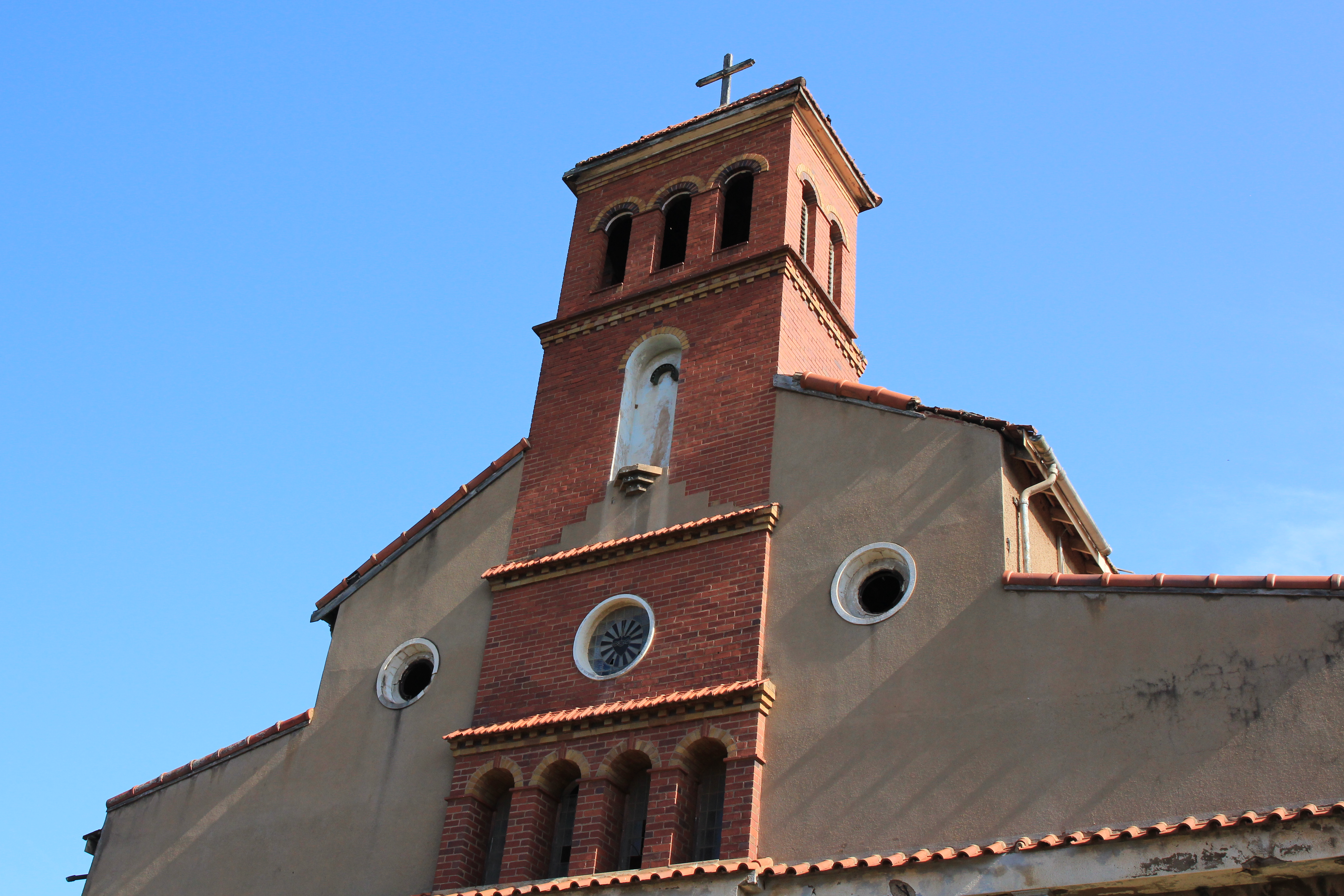 Now disbanded, was originally a Dominican Convent